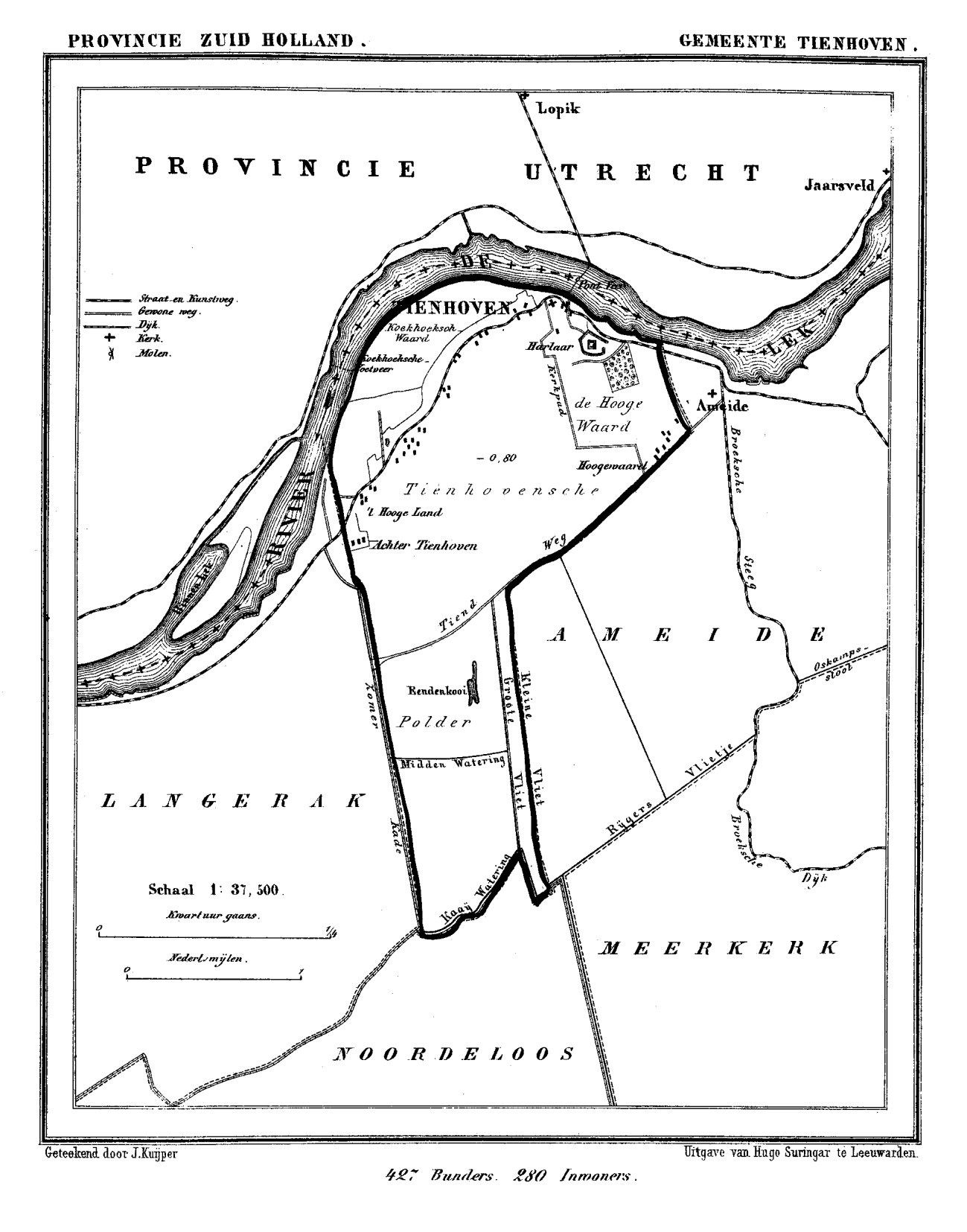 Historic map of Tienhoven (now part of municipality Zederik), South Holland, the Netherlands